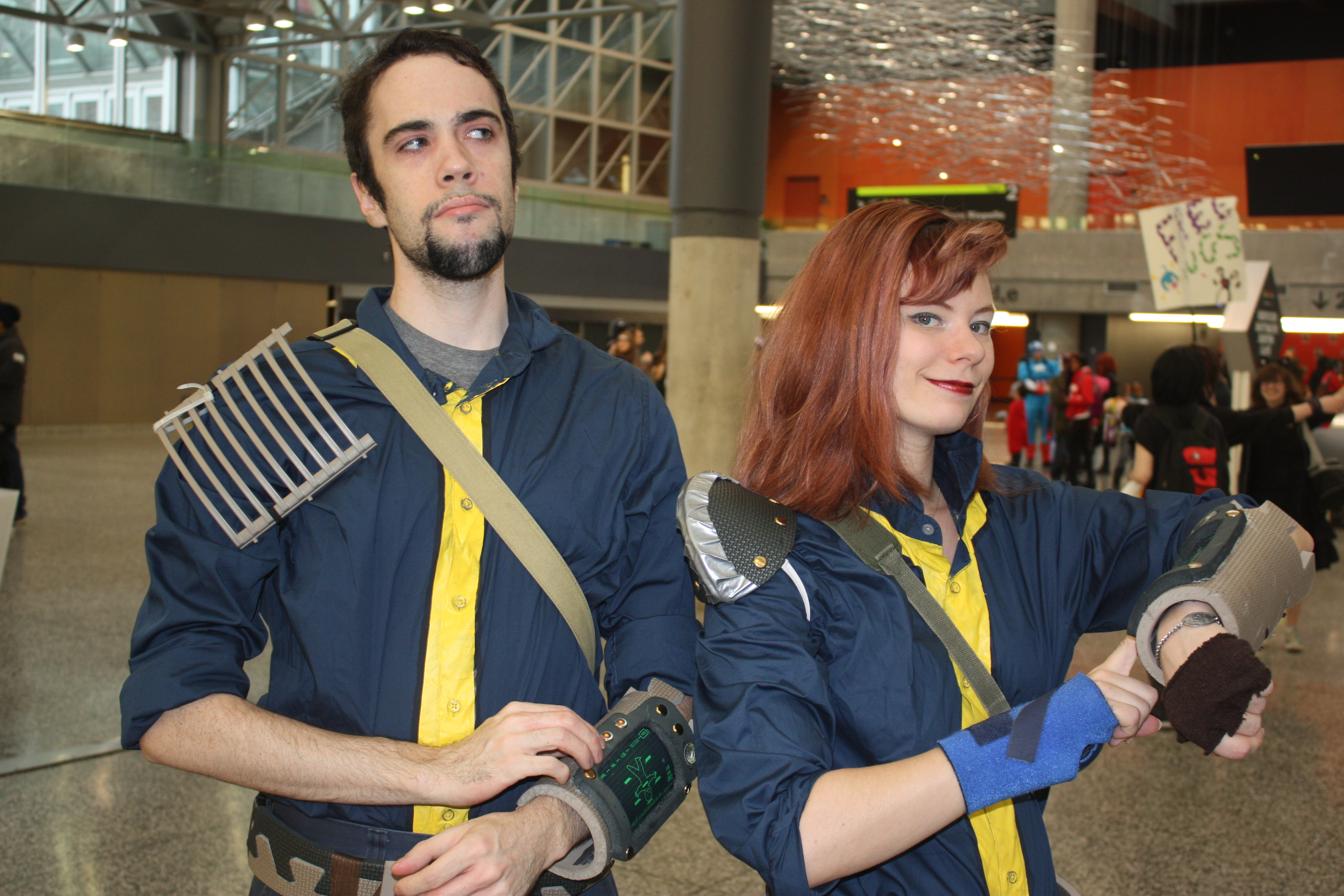 Cosplay of the Fallout series at Mini-Comiccon de Montréal 2015.